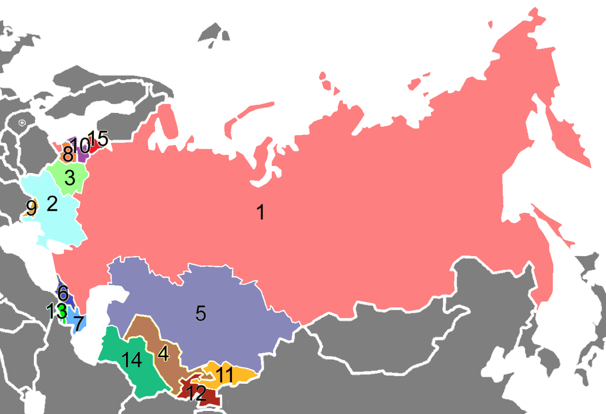 Republics of the Soviet Union, numbered according to the order in article 13 of the 1936 Soviet Constitution (version of 1956); names of the post-sovjet states: 1 Russia, 2 Ukraine, 3 Belarus, 4 Uzbekistan, 5 Kazakhstan, 6 Georgia, 7 Azerbaijan, 8 Lithuania, 9 Moldova, 10 Latvia, 11 Kyrgyzstan, 12 Tajikistan, 13 Armenia, 14 Turkmenistan, 15 Estonia